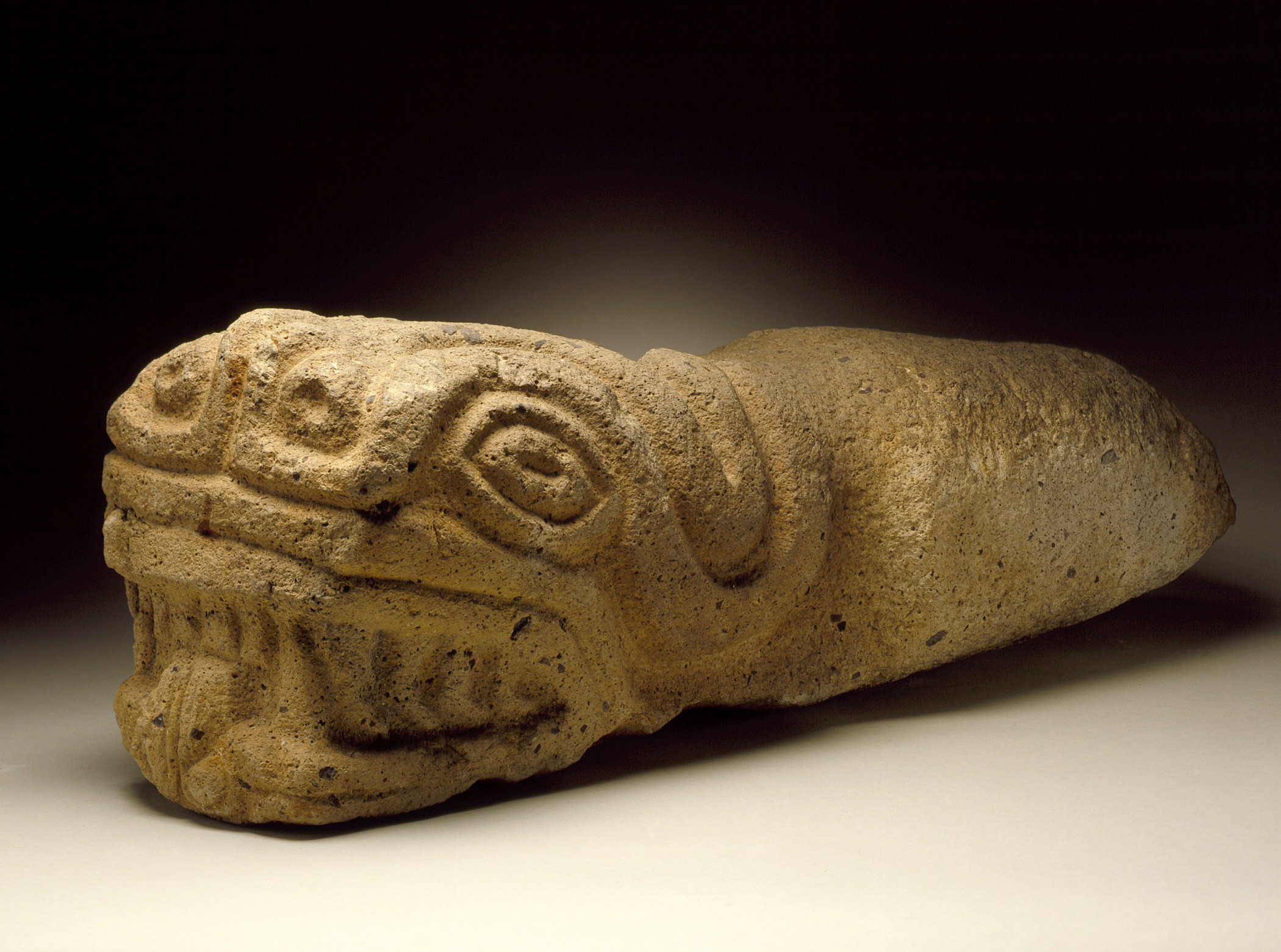 Mexico, Guerrero, Toltec, circa A.D. 800 Sculpture Stone The Phil Berg Collection (M.71.73.176) Art of the Ancient Americas